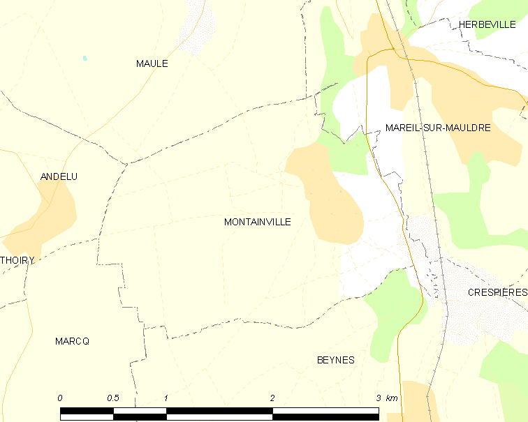 Map of French municipality Montainville